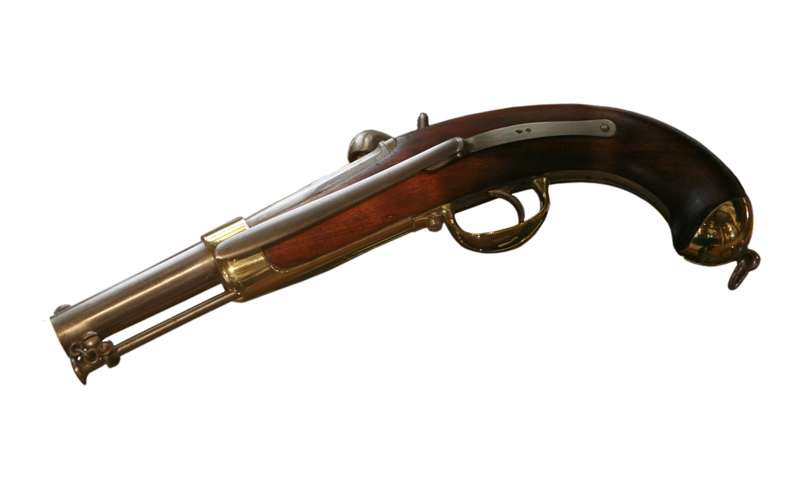 French Navy pistol, model 1849 On display at Toulon naval museum.